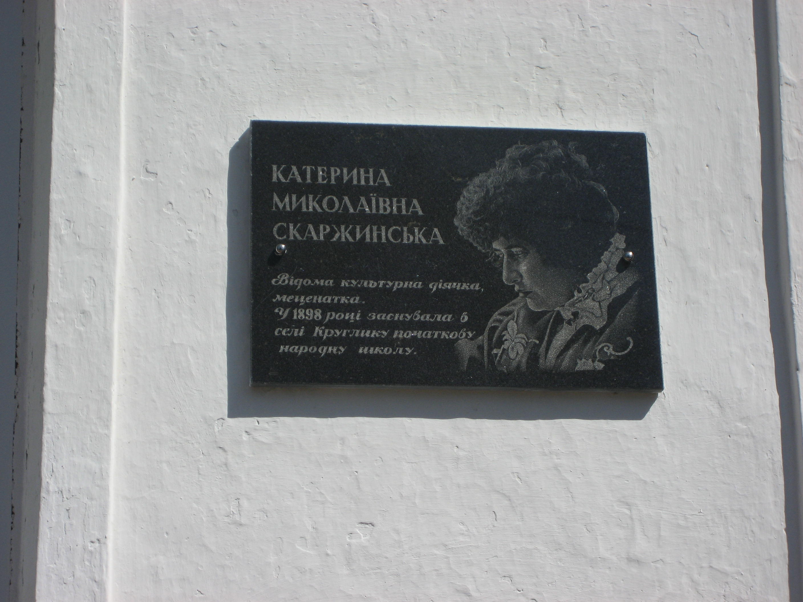 The plaque is on the wall of school number 9, Lubny, which was founded in 1898 as an elementary school for the children of peasants in the village of Krulik by Kateryna Skarzhinska